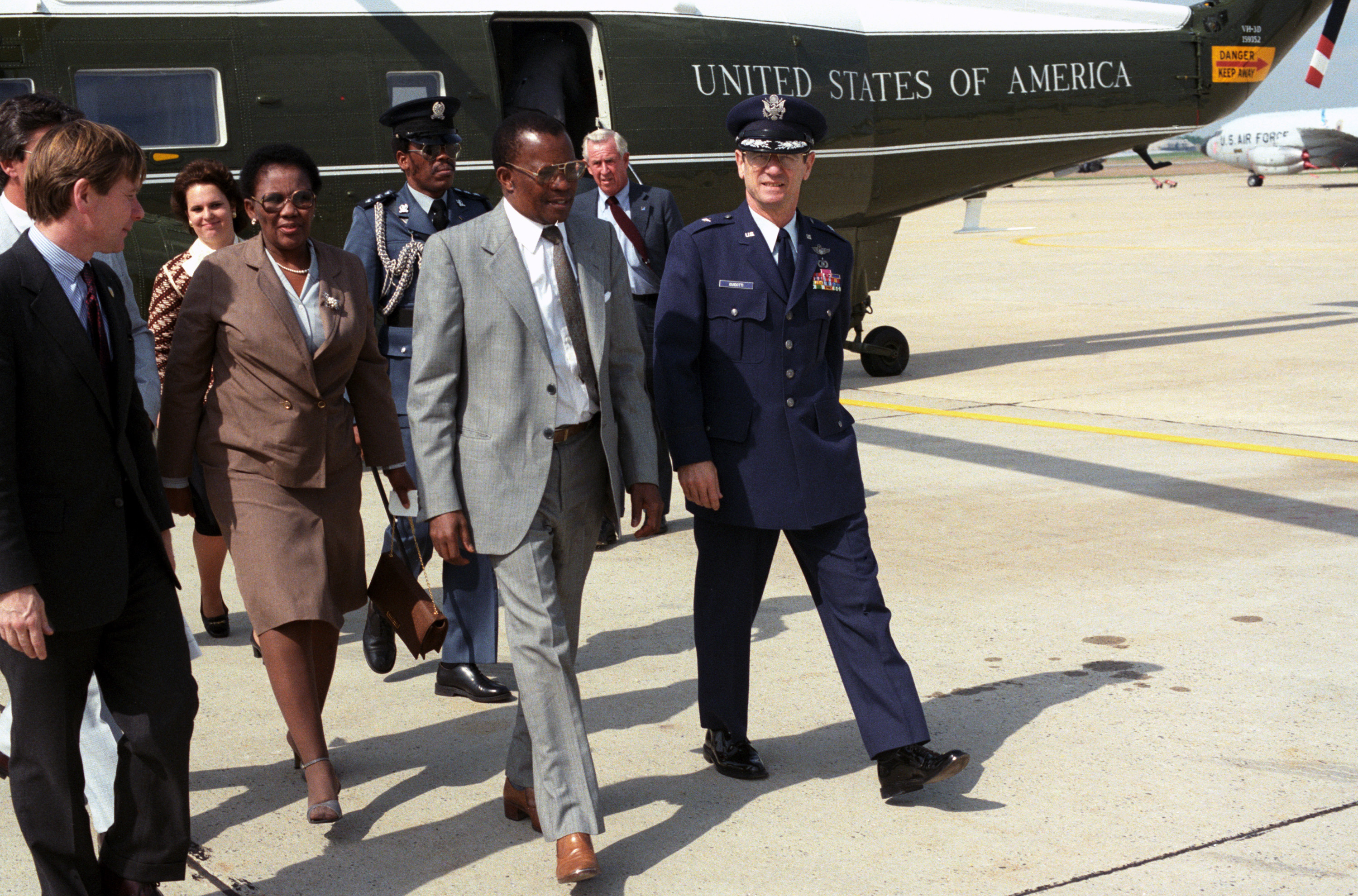 Dr. Quett K.J. Masire, President of the Republic of Botswana, is escorted across the runway apron by Brigadier General Albert C. Guidotti (right), commander, 76th Airlift Division. Dr. Masire is preparing to depart after a state visit.